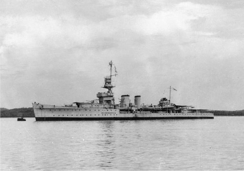 IWM caption : British light cruiser HMS CAPETOWN secured to a buoy on completion.